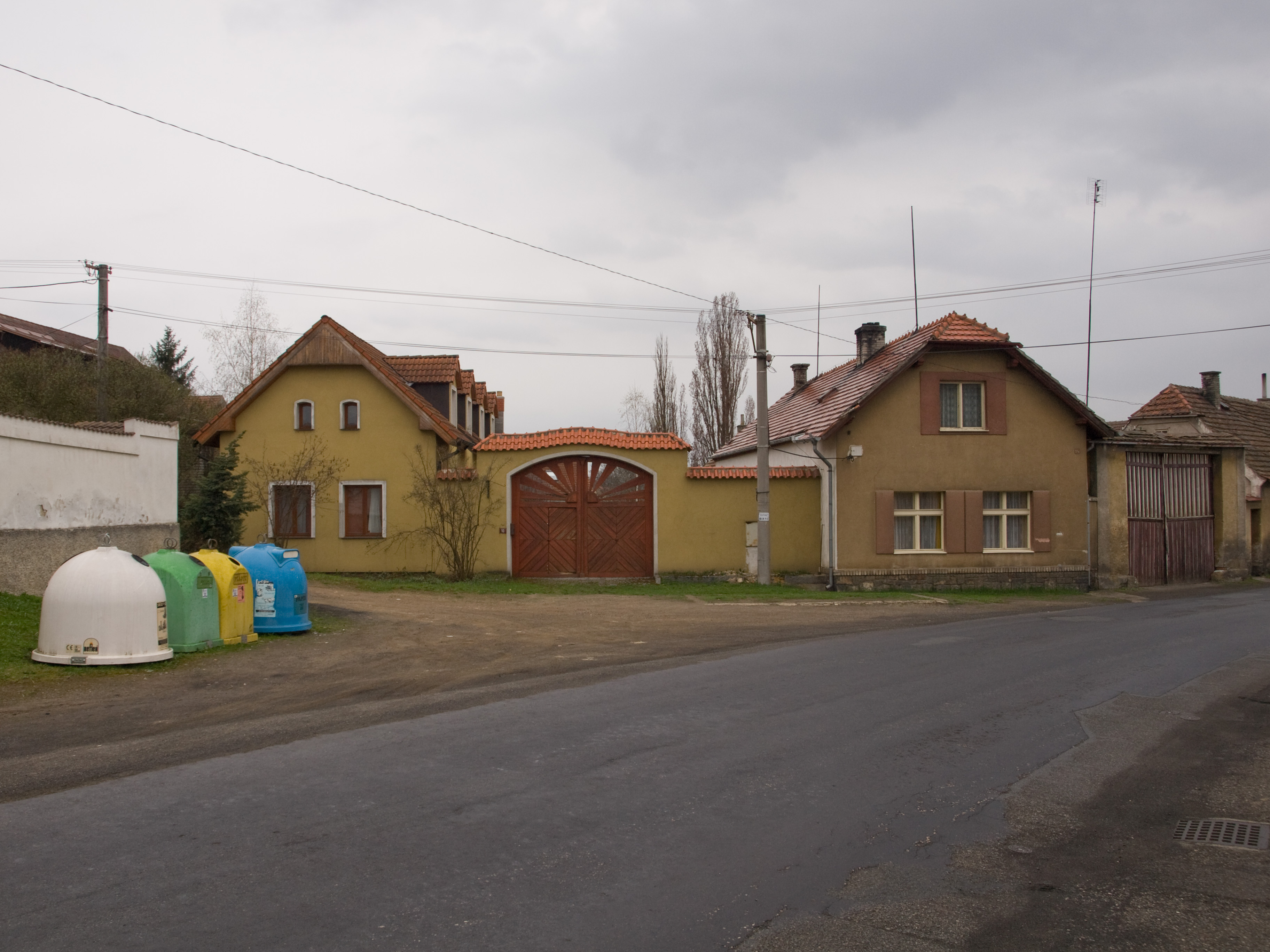 Sedlec, Žebrák, Beroun District, Central Bohemian Region, Czech Republic